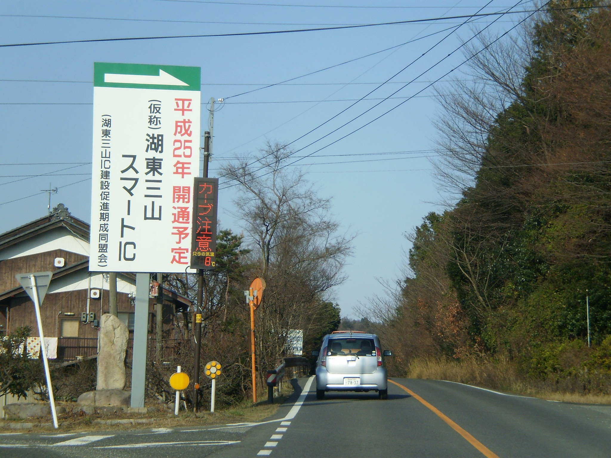 Signboard for Kotosanzan Smart Interchange in Matsuoji, Aisho Town, Shiga Prefecture, Japan